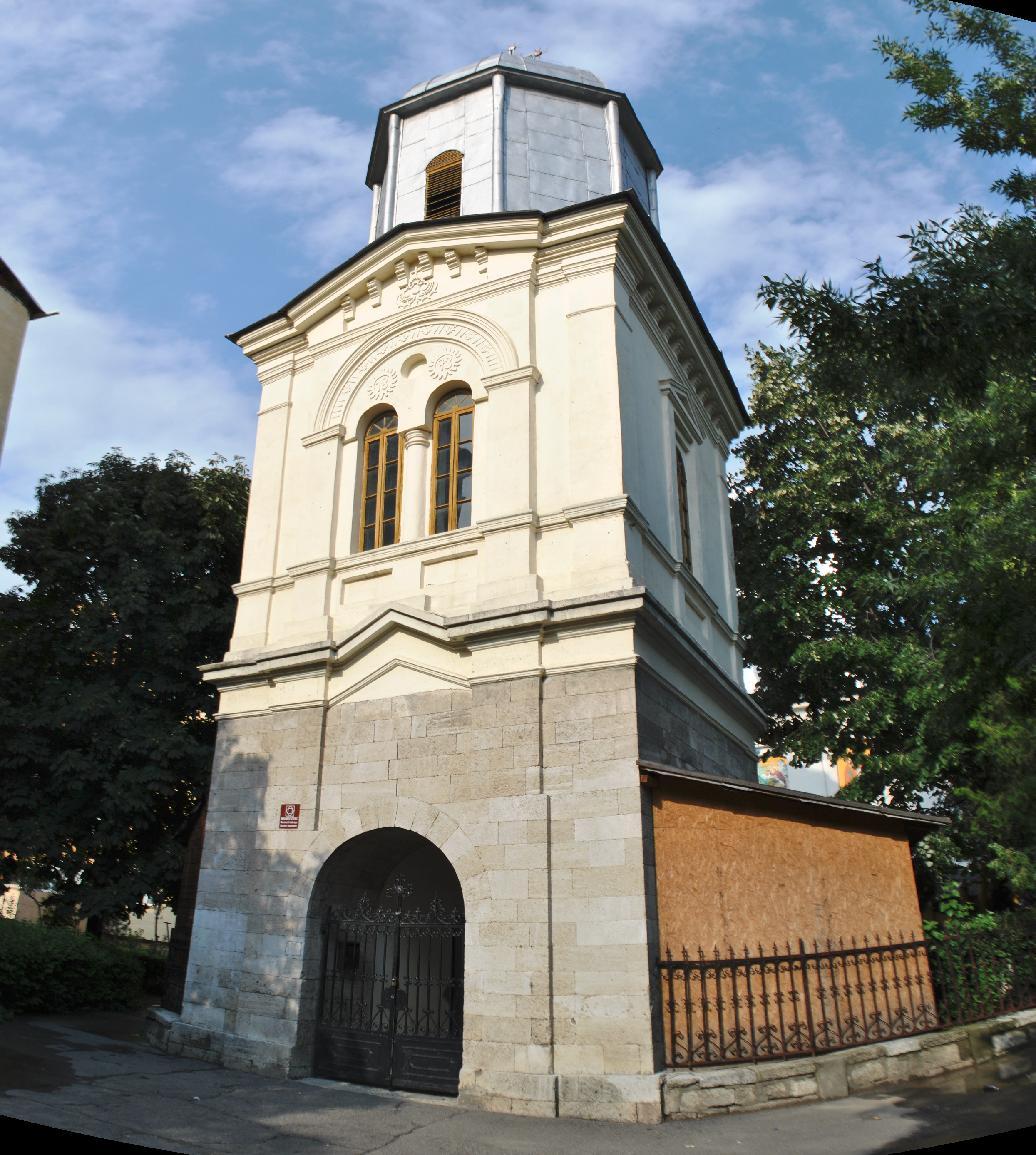 Belfry of the "Neguţători" ("Greci") church in Buzău, RomaniaRomână: Clopotniţa bisericii „Neguţători” („Greci”) din Buzău, România